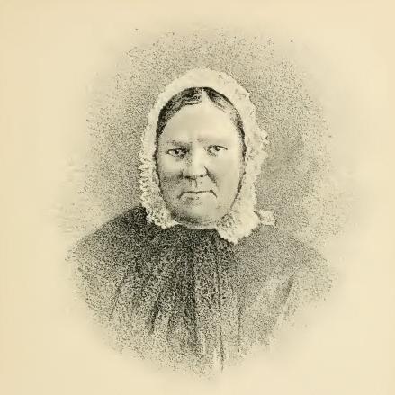 Drawing of Mary Winans Ross, wife of Ossian M. Ross, from History of Fulton County, Illinois, p. 771.